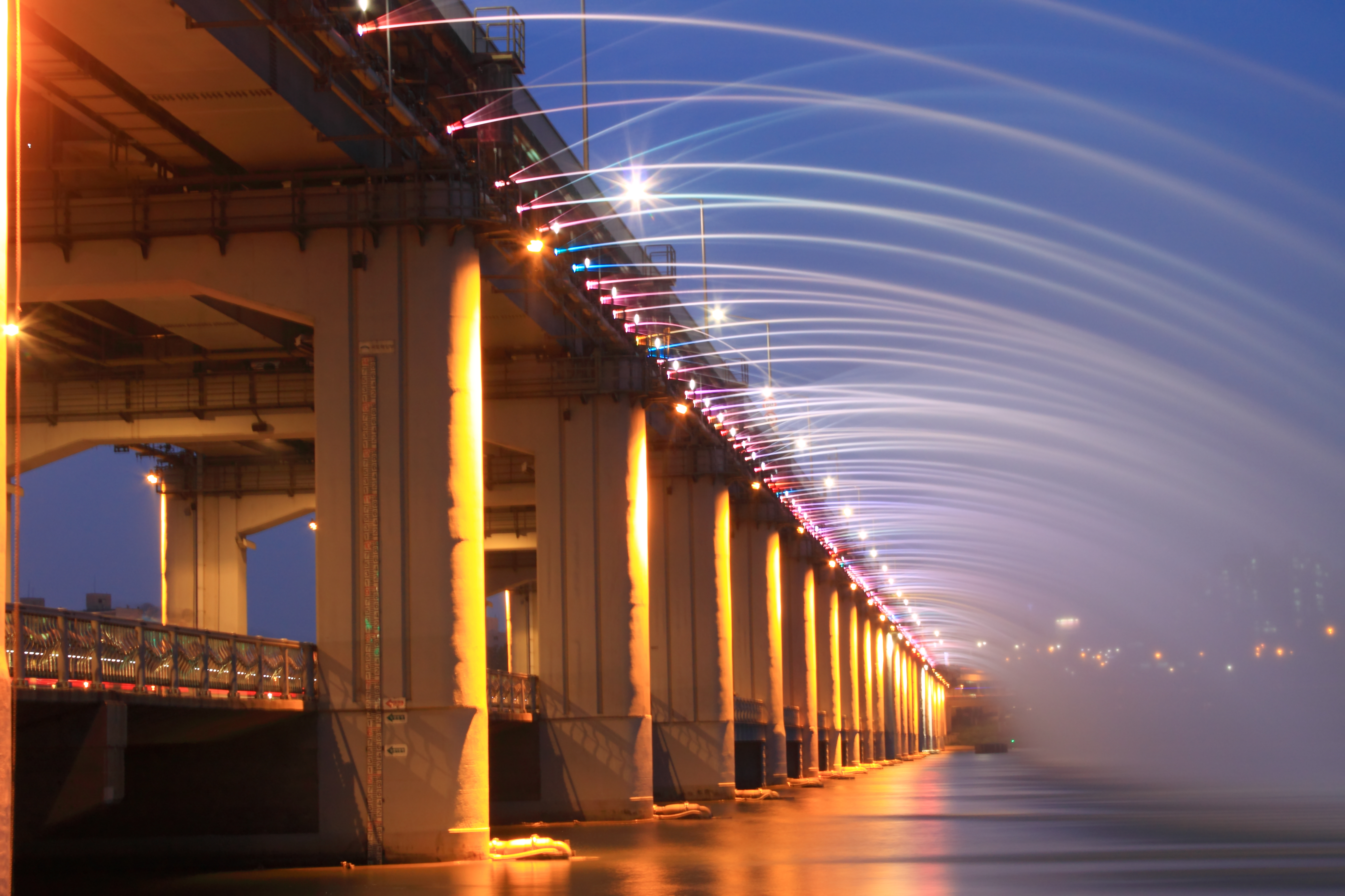 Picture of the side of Jamsu/Banpo Bridge and the Rainbow Fountain.